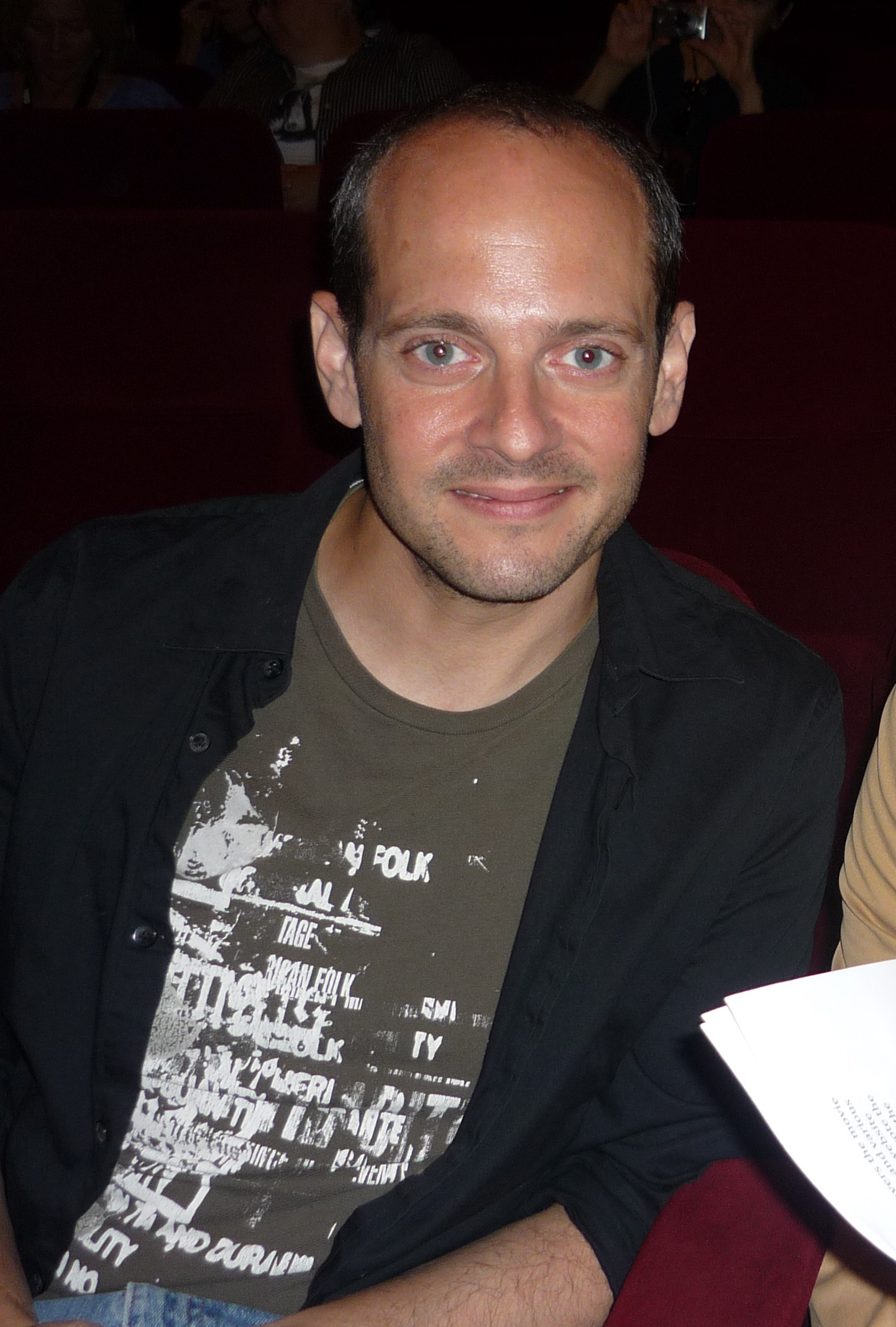 Jonathan Slavin at Outfest 2010